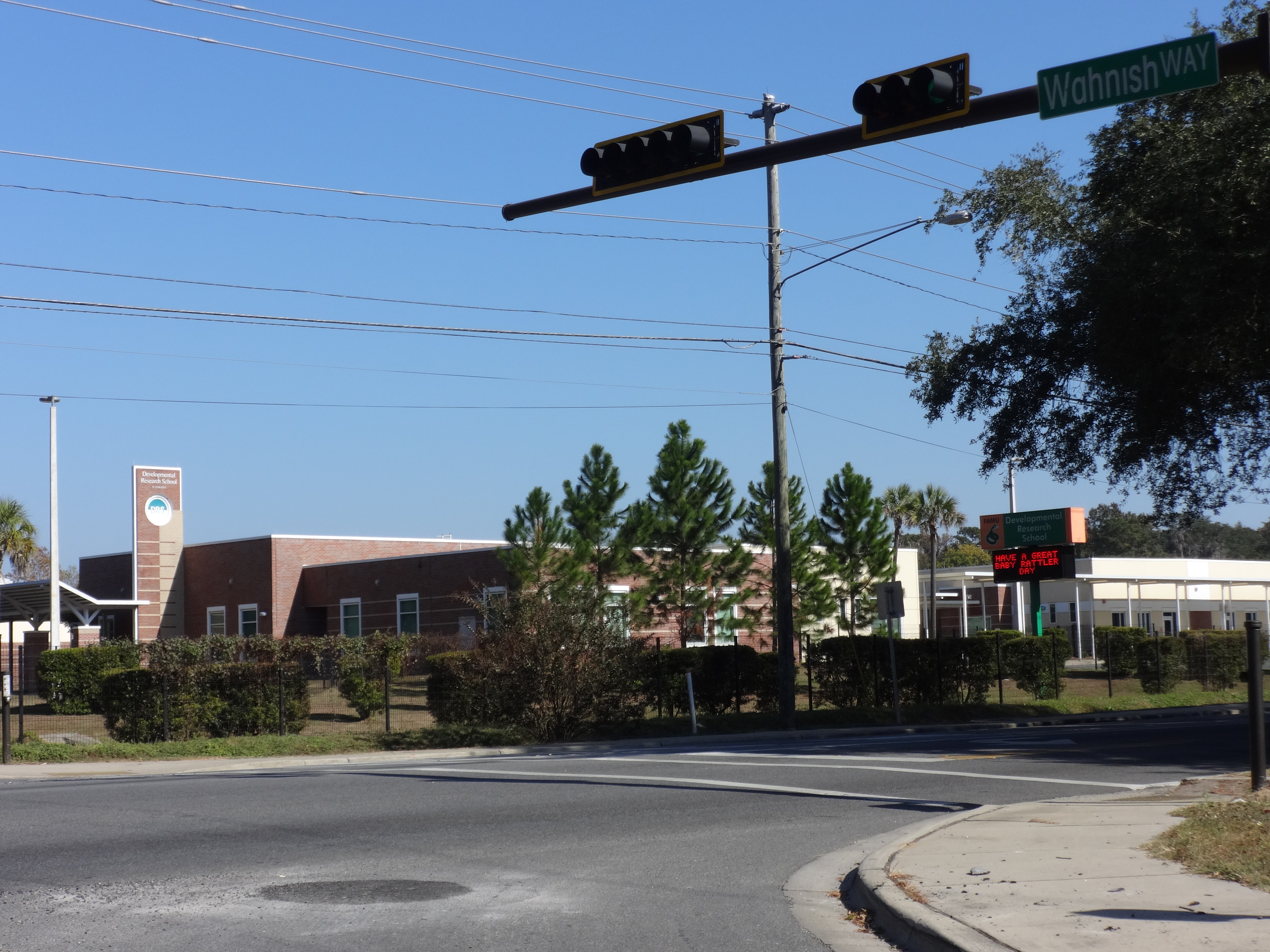 Developmental Research School, FAMU, Tallahassee, Leon County, Florida